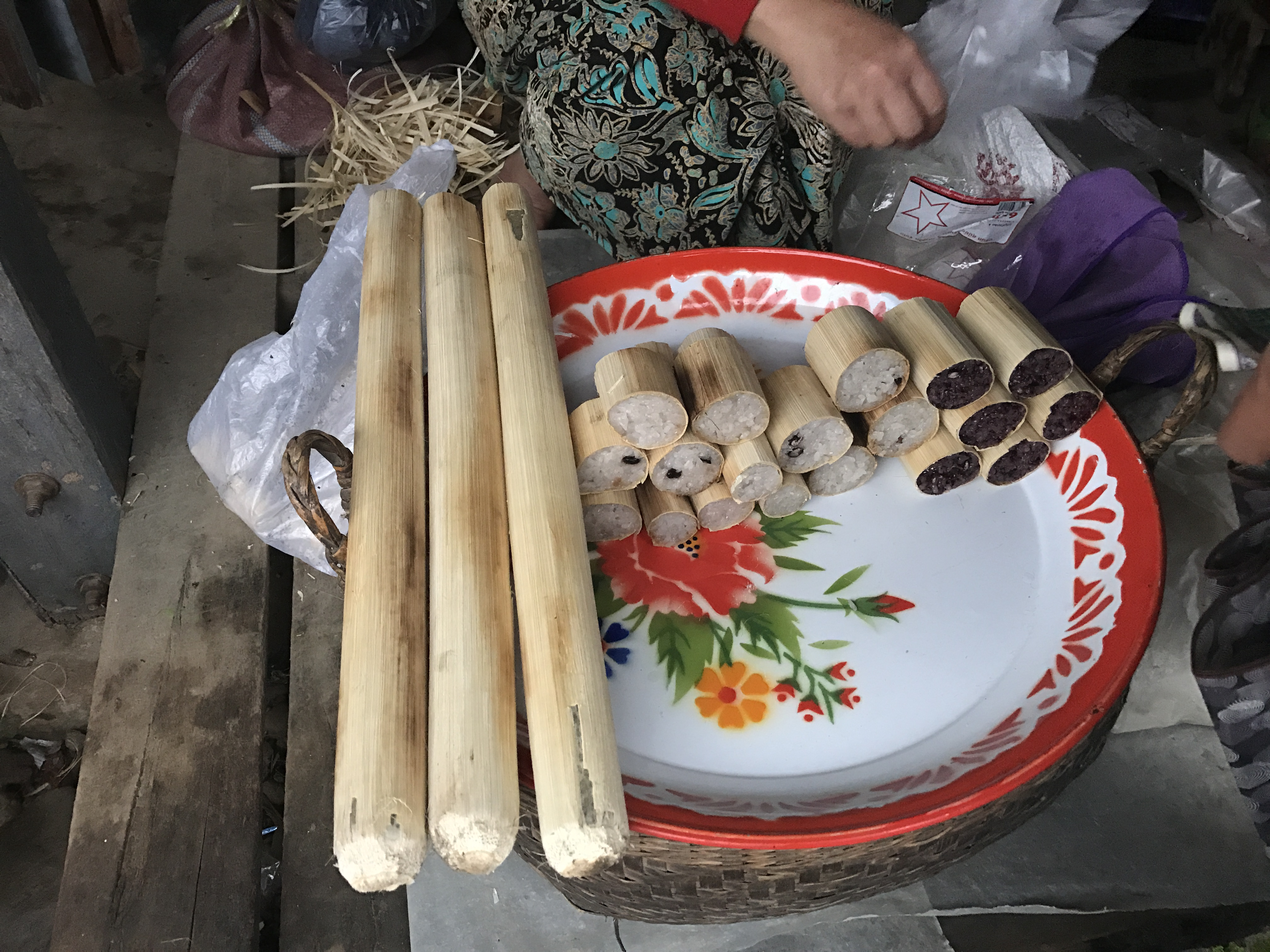 Locally made Sticky rice in bamboo at Mong Yawng market in December 2016.